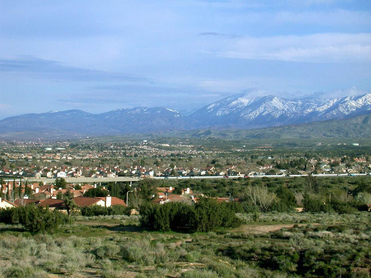 Photo taken by User:Jamesb01 in March 2005. (Nikon 995)